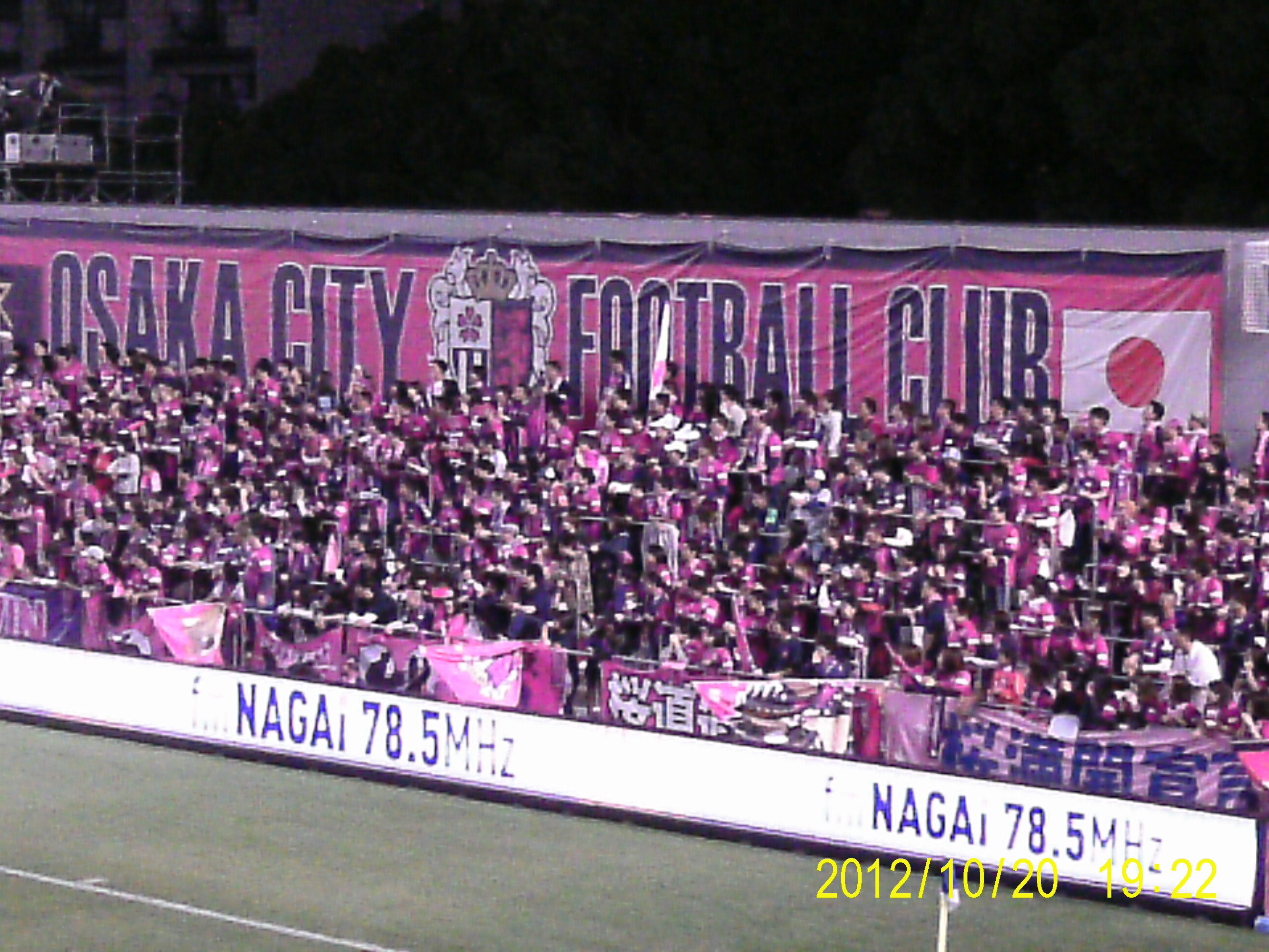 Cerezo Osaka FC Supporter at Nagai Football Stadium